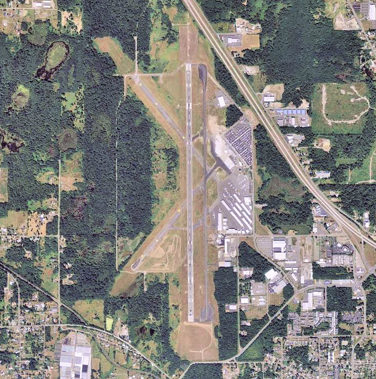 USGS digital orthophoto of Bellingham International Airport in Washington